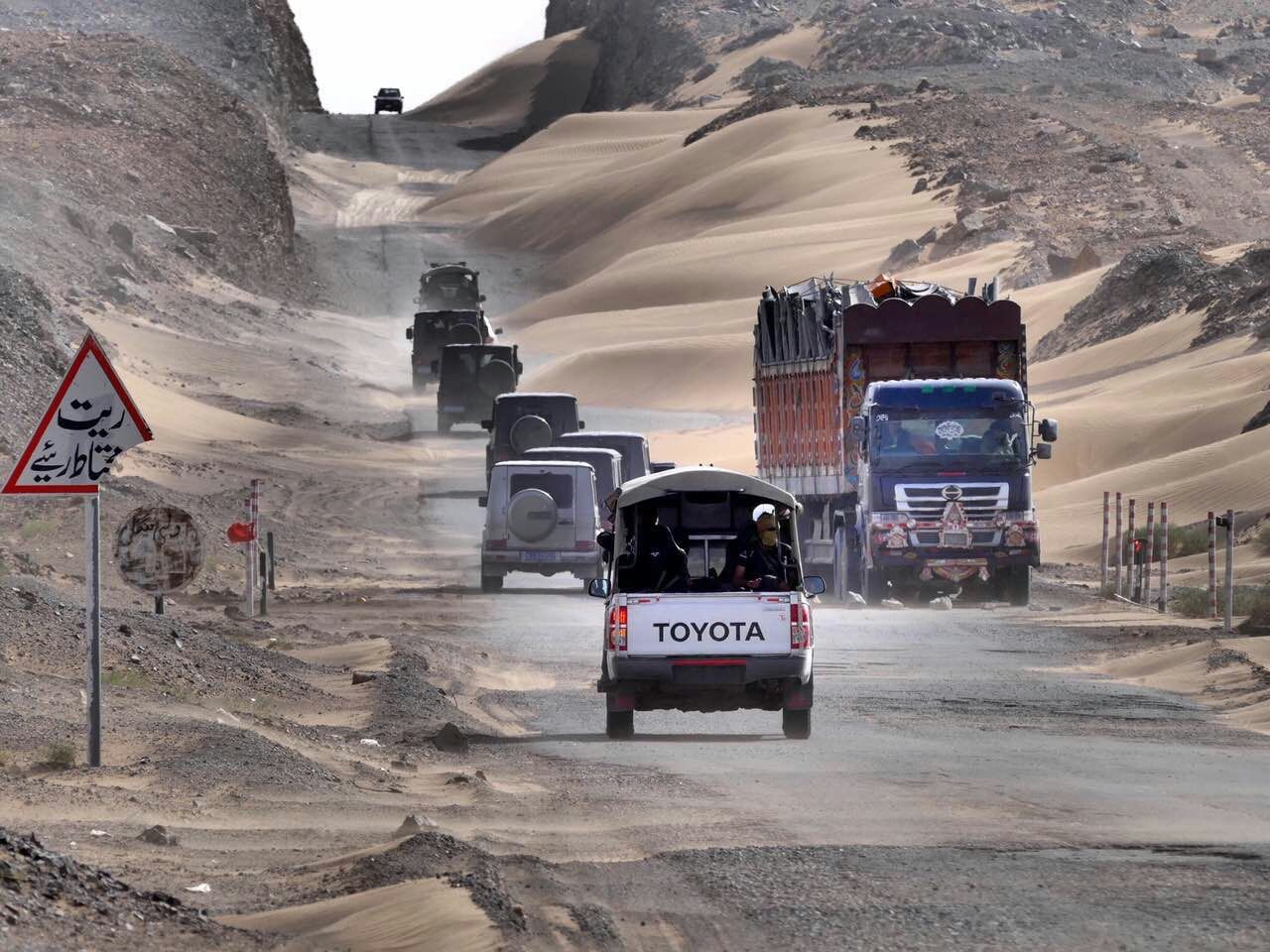 Ask Mohsin Shahid